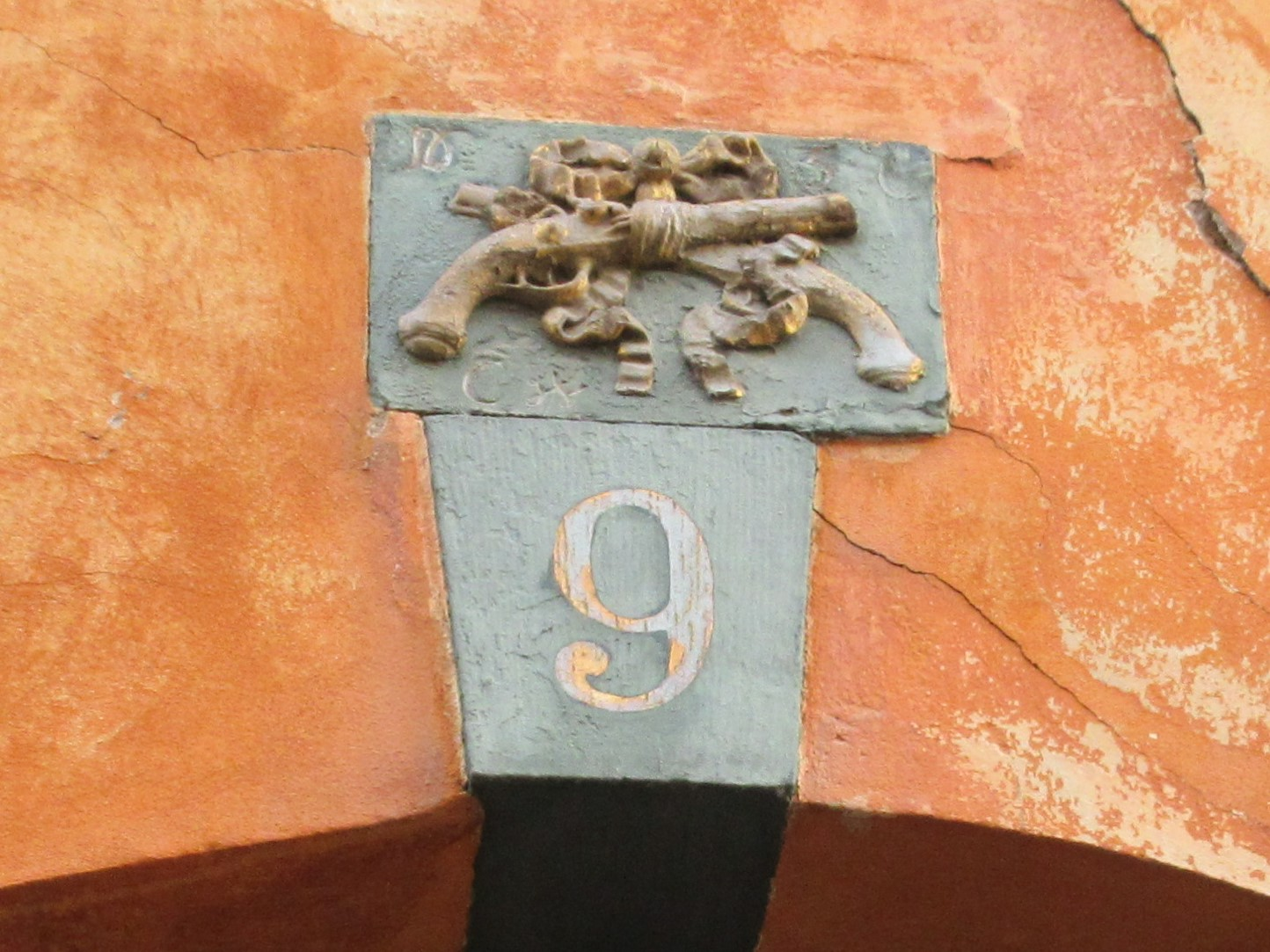 Detail of the key stone with the house number (9) and a relief of two crossed pistols at Ny Vestergade 9 in Copenhagen, Denmark. The pistols were added by a royal gunsmith who owned the building from 1797.